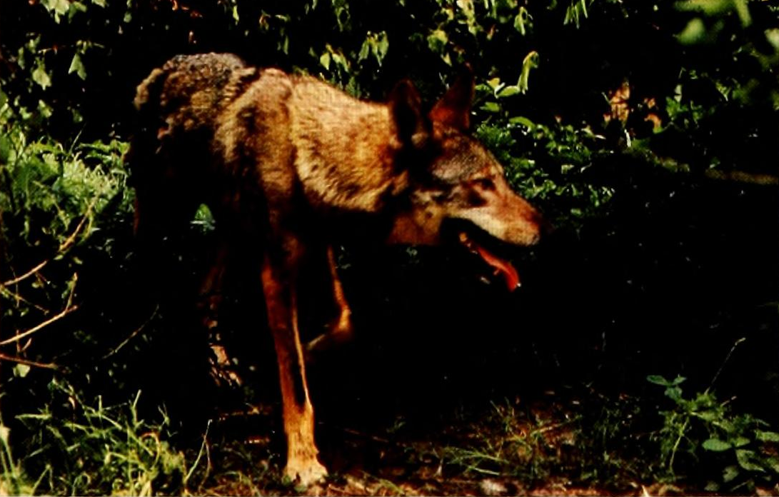 Red wolf